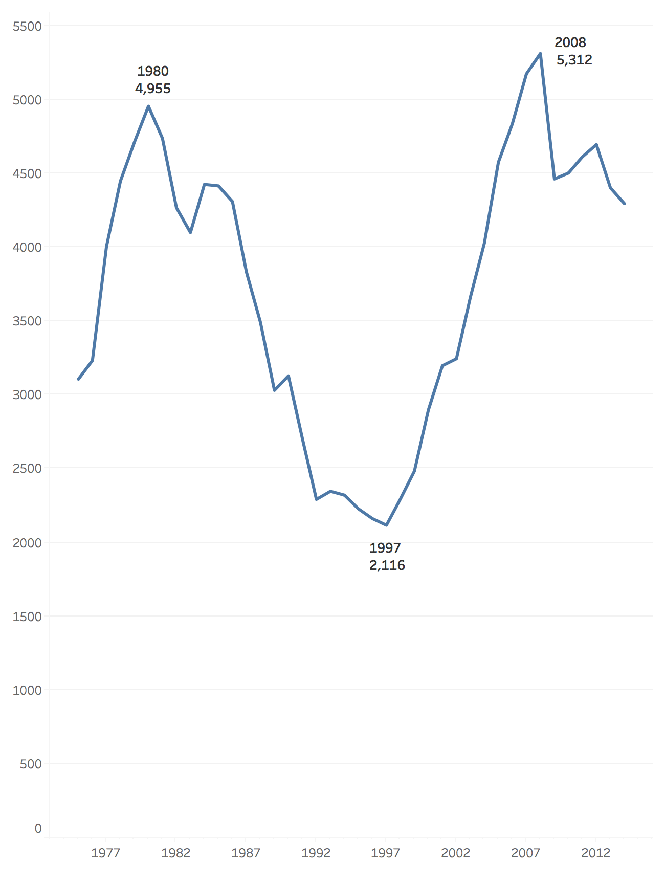 Annual US Motorcycle deaths by year. Sources [1][2][3][4]